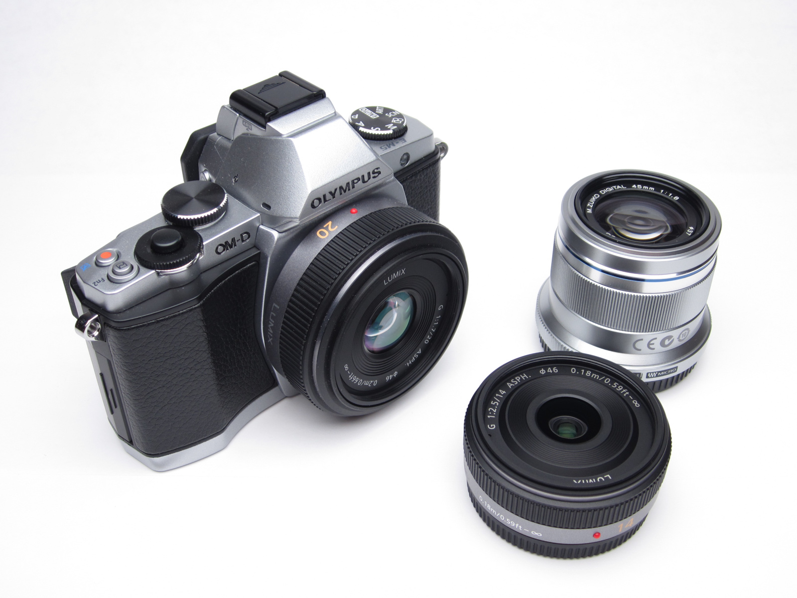 Read about how this came about: and my thoughts about this awesome little camera